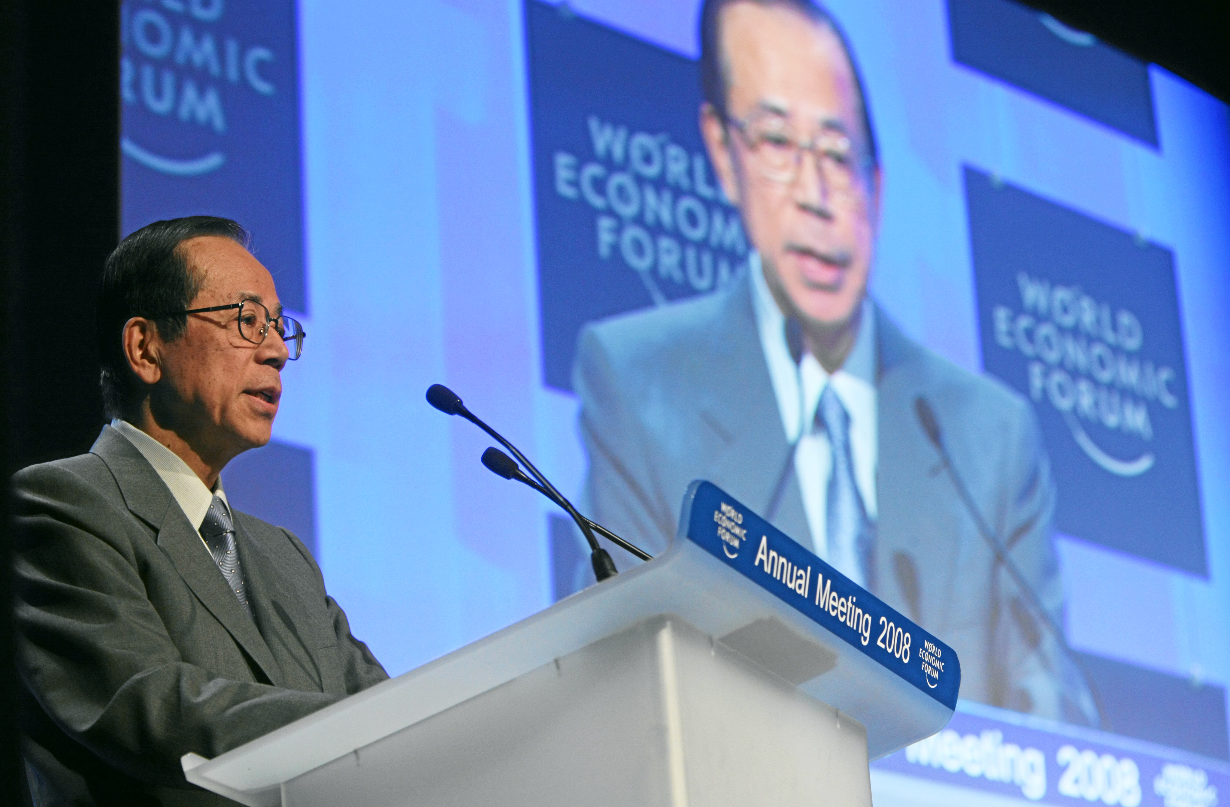 DAVOS/SWITZERLAND, 26JAN08 - Yasuo Fukuda, Prime Minister of Japan holds a Special Address at the Annual Meeting 2008 of the World Economic Forum in Davos, Switzerland, January 26, 2008. Copyright World Economic Forum ( by Remy Steinegger